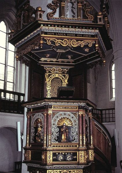 Maribo Cathedral